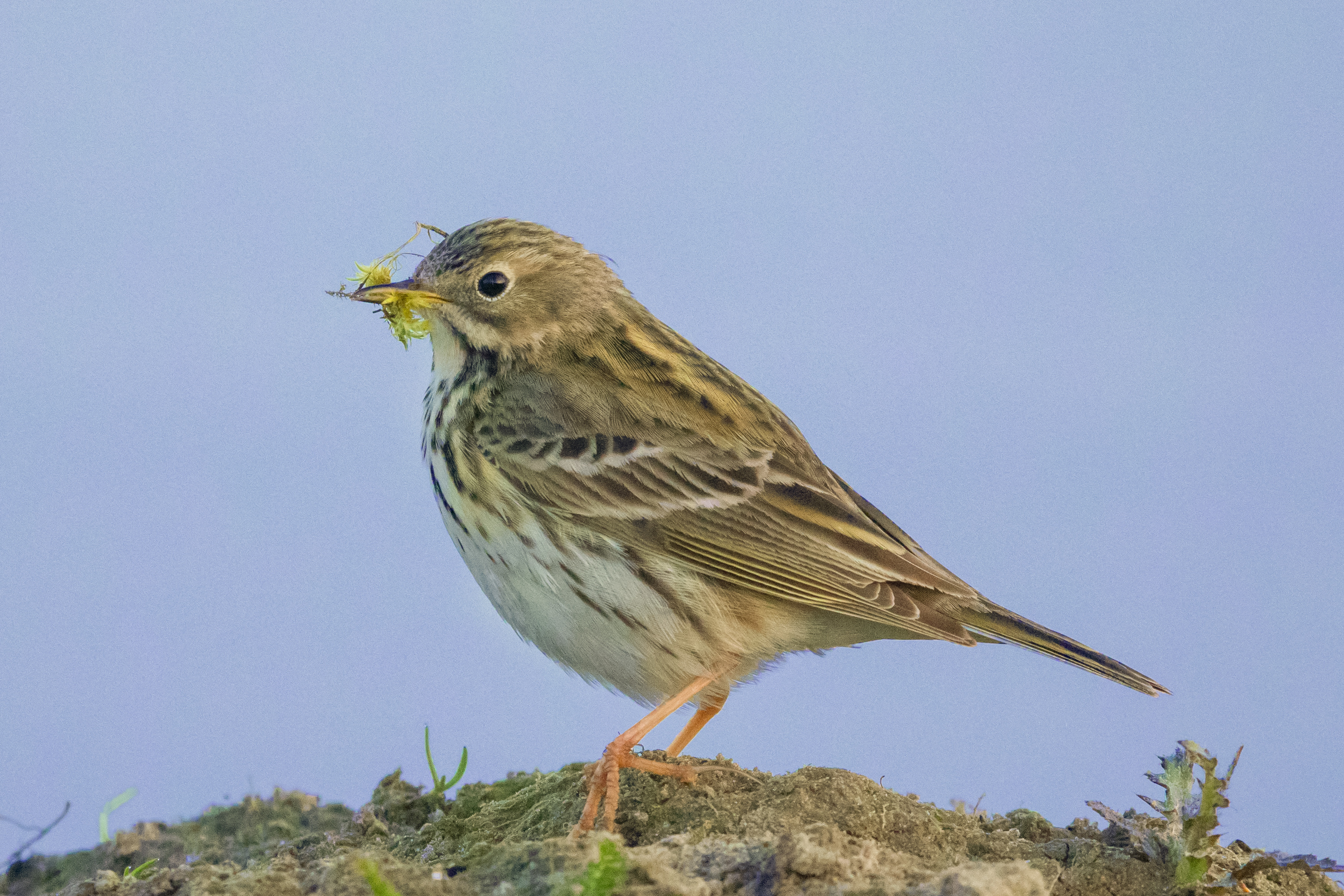 Meadow pipit